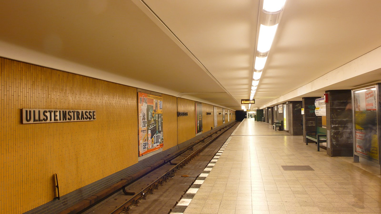 Ullsteinstr subway berlin